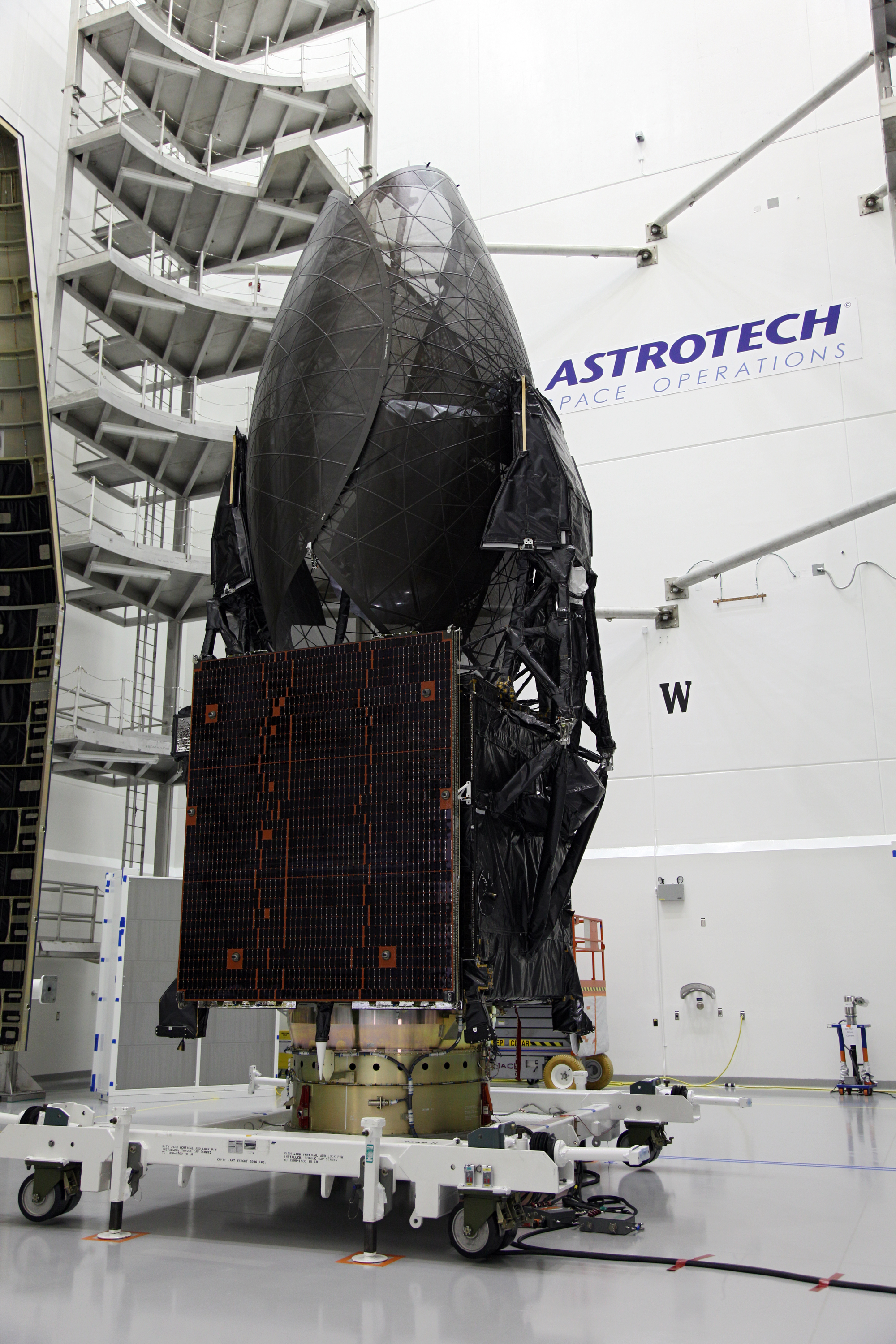 TITUSVILLE, Fla. - NASA's Tracking and Data Relay Satellite, TDRS-K, stands positioned between two pieces that make up the payload fairing that will protect the spacecraft during launch and ascent into space. Technicians working inside the Astrotech payload processing facility in Titusville, Fla., near NASA’s Kennedy Space Center will perform the encapsulation. Launch of the TDRS-K on the United Launch Alliance Atlas V rocket is planned for January 29, 2013. The TDRS-K spacecraft is part of the next-generation series in the Tracking and Data Relay Satellite System, a constellation of space-based communication satellites providing tracking, telemetry, command and high-bandwidth data return services.